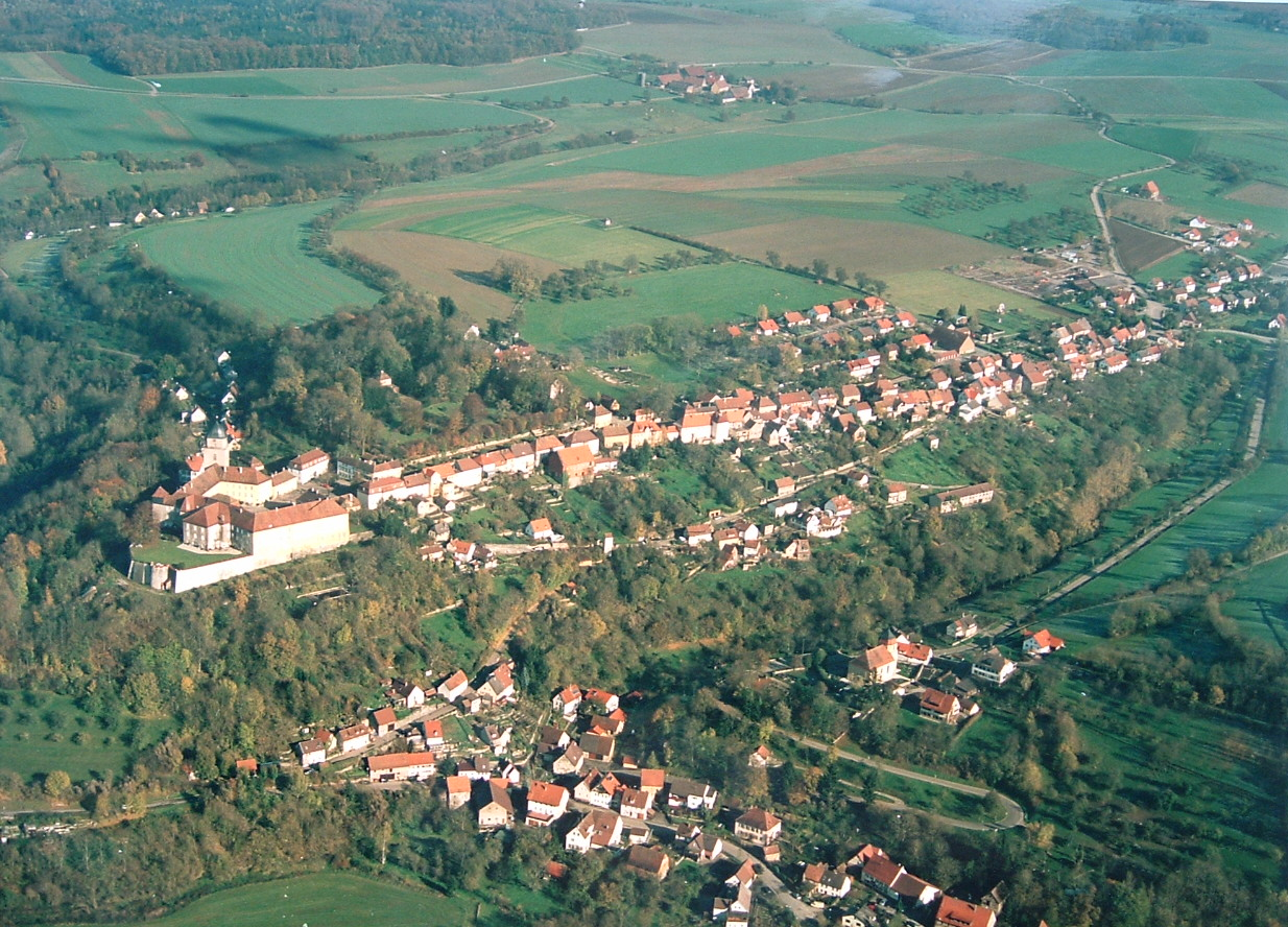 Bartenstein in Landkreis Schwäbisch Hall, Germany. View to northeast.